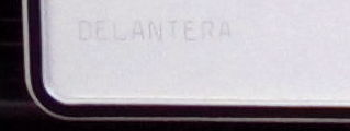 Chilean registration plate in format 3: particular with new font, detail of new security feature